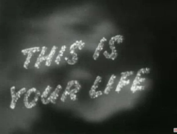 Screen capture showing the title sequence for This Is Your Life in 1954.